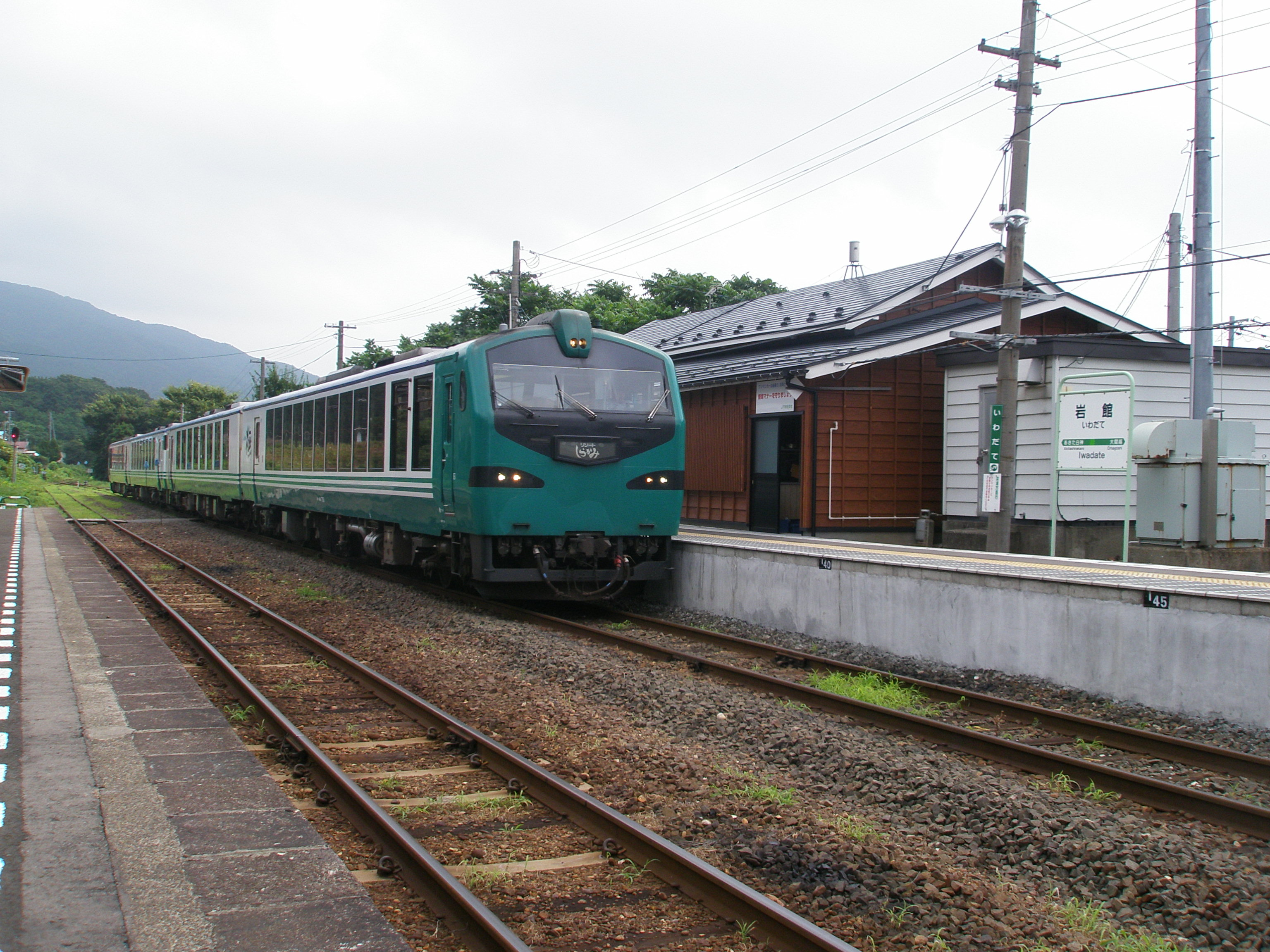 The JR East Resort Shirakami DMU set at Iwadate Station on the Gono Line